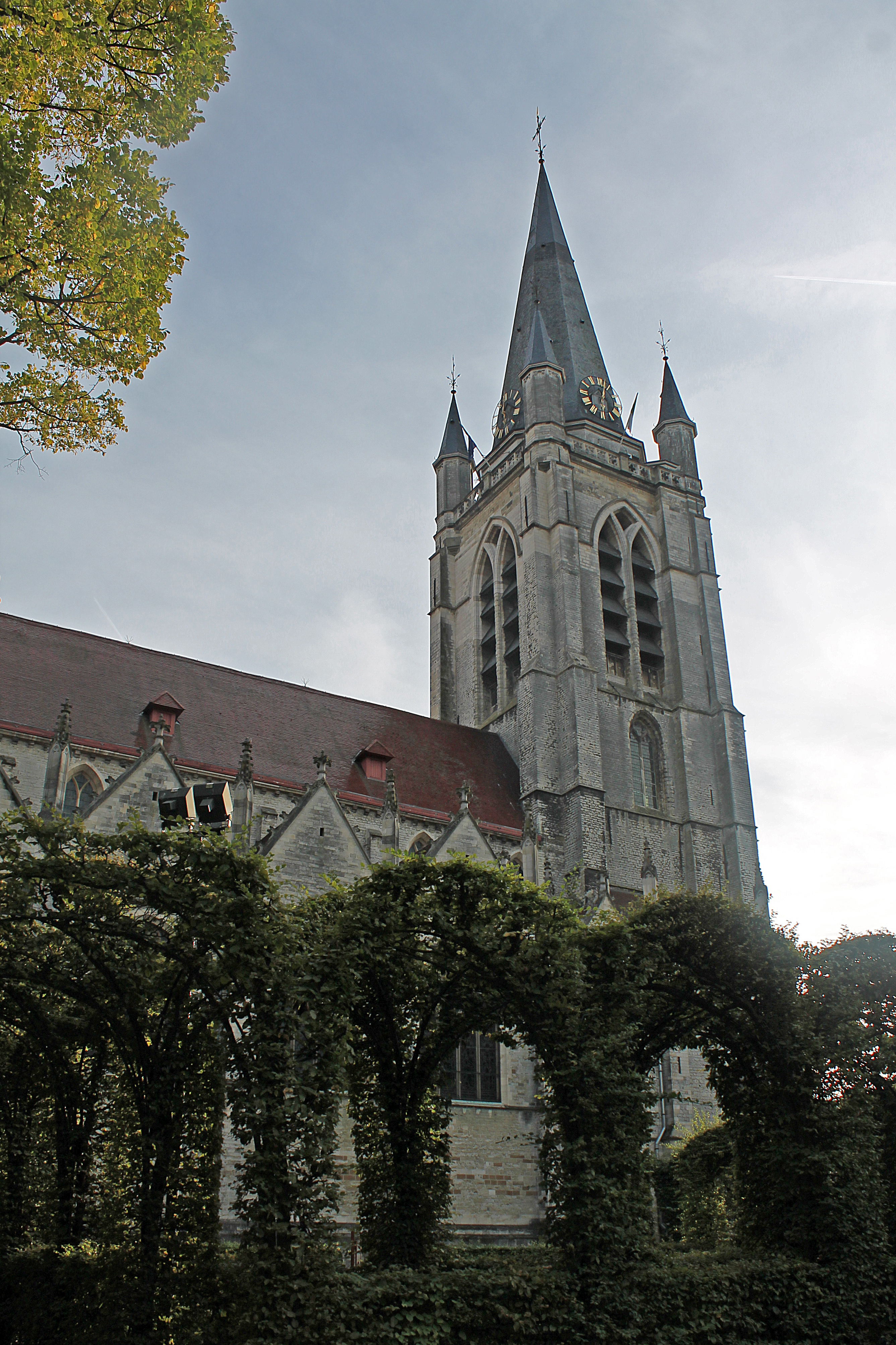 Tower of the Saint Hermes church